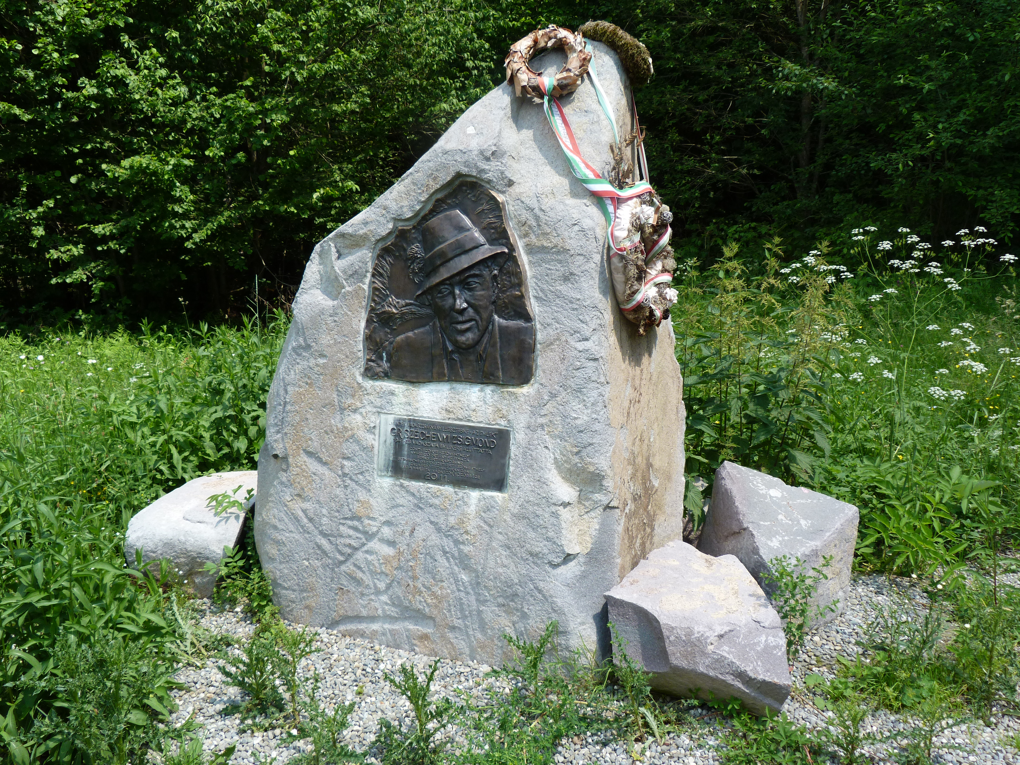 Live on the 17th of June, 2013. Hargita Mountain, the holy mountain of the Székely People (1801m) is the highest peak of the Hargita Mountain chain. One can reach it by foot in the valley of the Ivo stream. Ivo crossroad – the statue of gróf Széchenyi Zsigmond. A felvétel 2013. június 17 -én, hétfőn készült a Hargitán. Ivó pataka. Az Ivó patak völgyében haladva közelíthető meg a Hargita csúcsa (1801 méter). Az Ivó völgye a Madarasi Hargita lábánál. Gróf Széchenyi Zsigmond szobra. A Madarasi Hargitára 14 km-es gyalogúton is fel lehet jutni. A Gróf Széchenyi Zsigmond szobránál levő elágazásnál jobbra fordulva cca 2-3 km-es, erősen emelkedő szakaszon még járható személygépkocsival az út, innen kezdve azonban nem. A Madarasi Hargita emlékház 1675 m-es magasságban van. ©© Derzsi Elekes Andor, Budapest, 2013, You are authorised to use these photos and vids under Creative Commons -- even for commercial, for profit purposes. Photos must be attributed to Derzsi Elekes Andor. All of the photos and vids in the Metapolisz DVD line are under Creative Commons and can be used even for commercial -- for profit -- purposes. Recommended Citation Derzsi Elekes Andor: Metapolisz DVD line Time: Mashine time + 1 hour